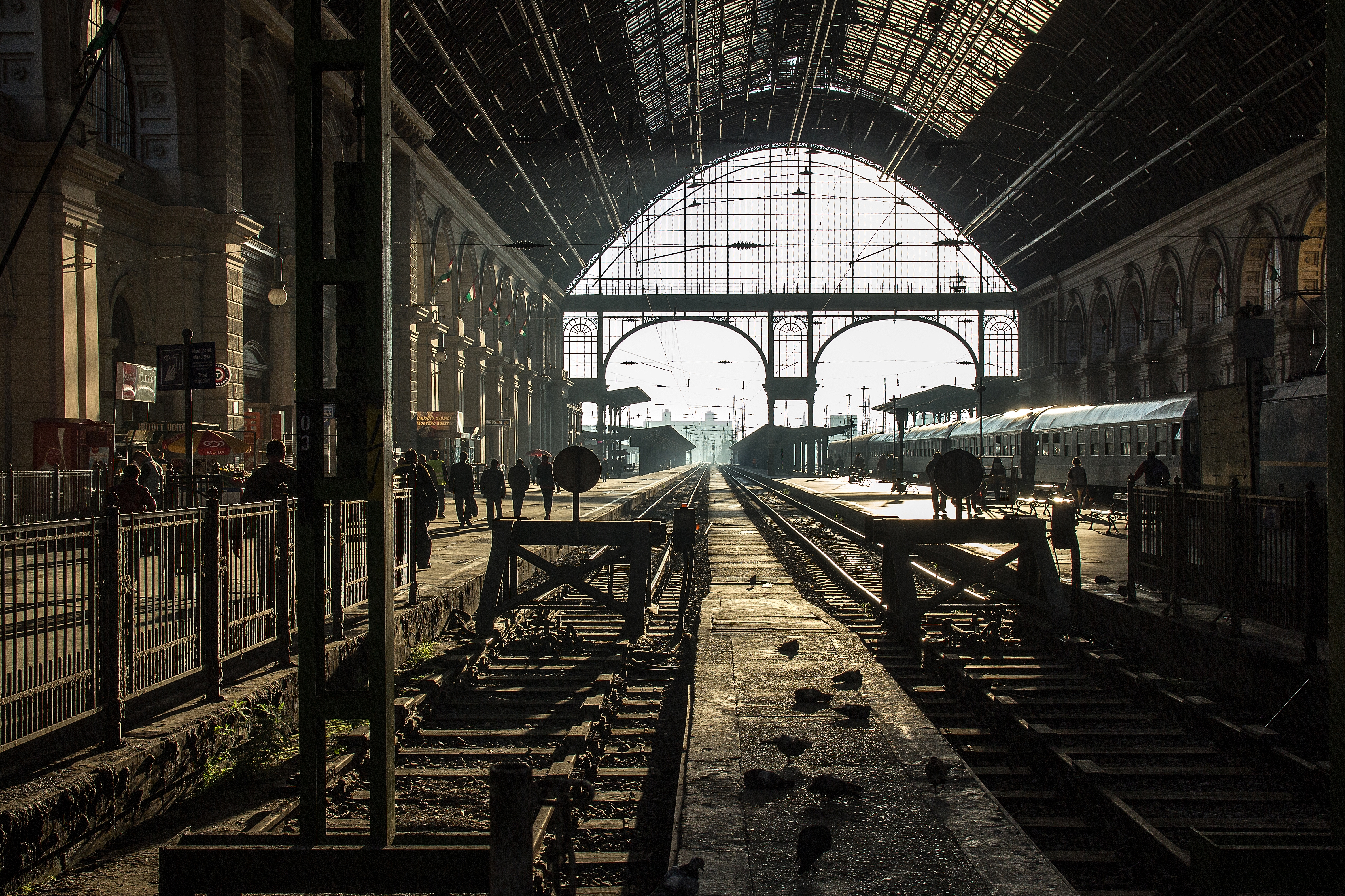 'Eastern lights...' - Budapest Keleti (Eastern) Railway Station, Budapest, Hungary